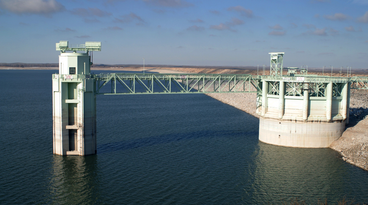 Morning Glory – a large outlet tower structure at Kingsley Dam used to release water from Lake McConaughy.